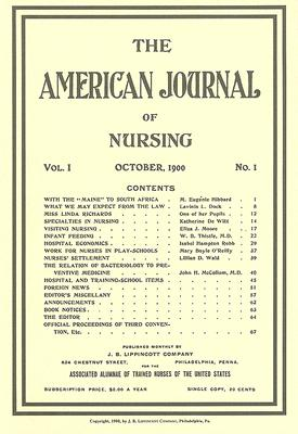 Cover of the 1st number of American Journal of Nursing, published on October 1900